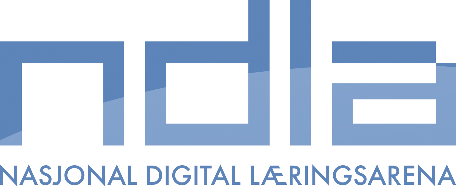 Norwegian Digital Learning Arena. NDLA